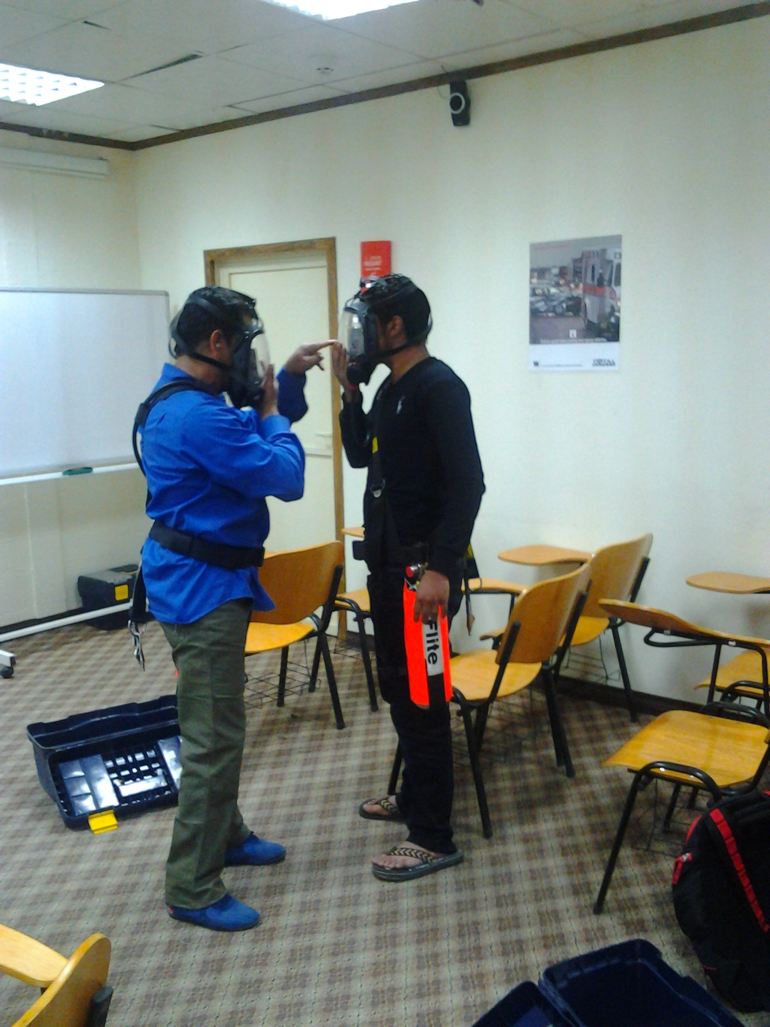 Personnel of offshore drilling rig during training in use of EEBD (Emergency Escaping Breathing Device).